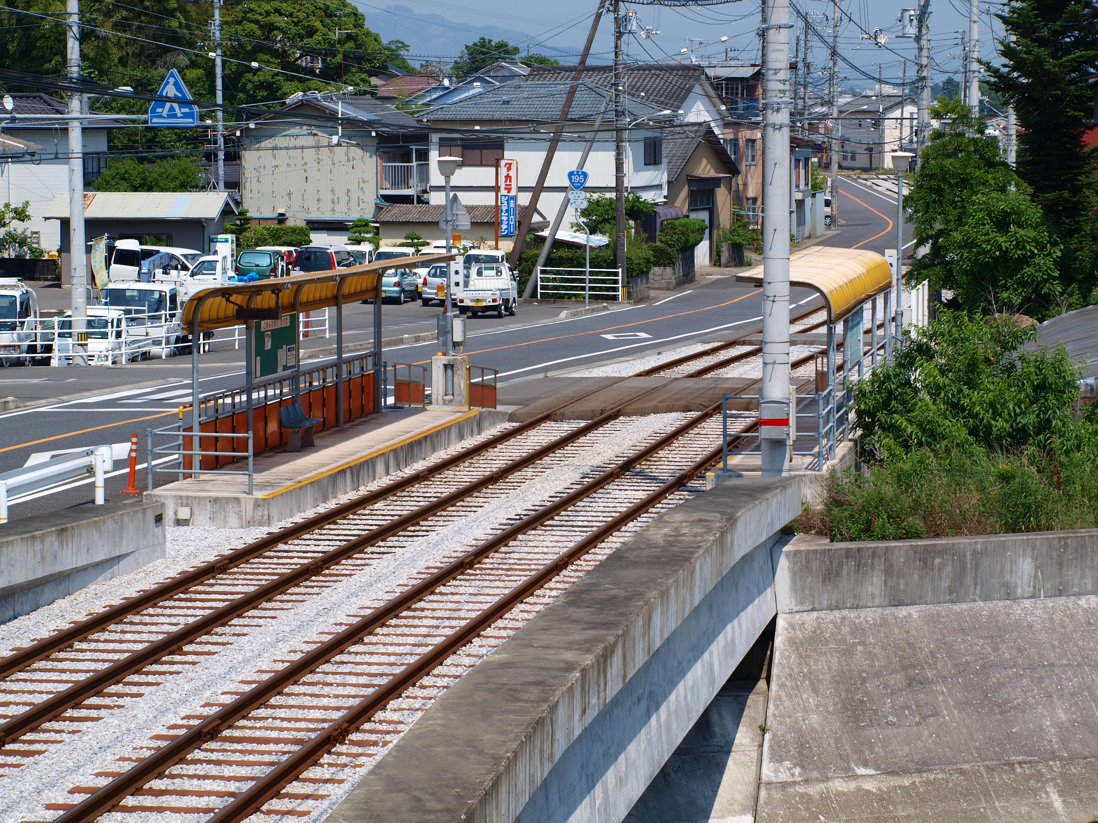 Tosa Electric Railway Ichijyobashi station, Kochi, Japan